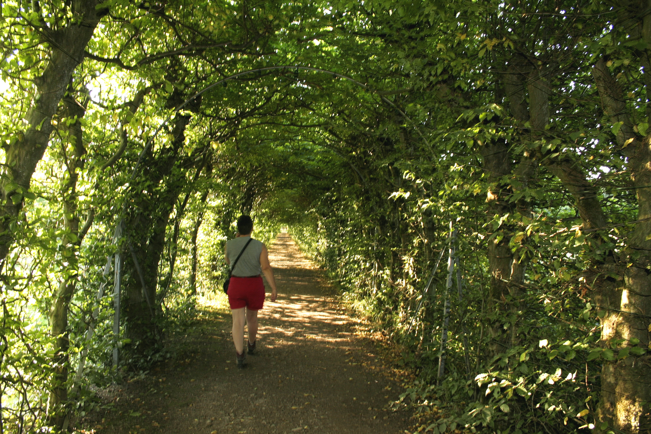 La Reid (Belgium), the Grand-Maret harbor (Carpinus betulus)– One of the longest Hornbeamtree-covered walk (573m).